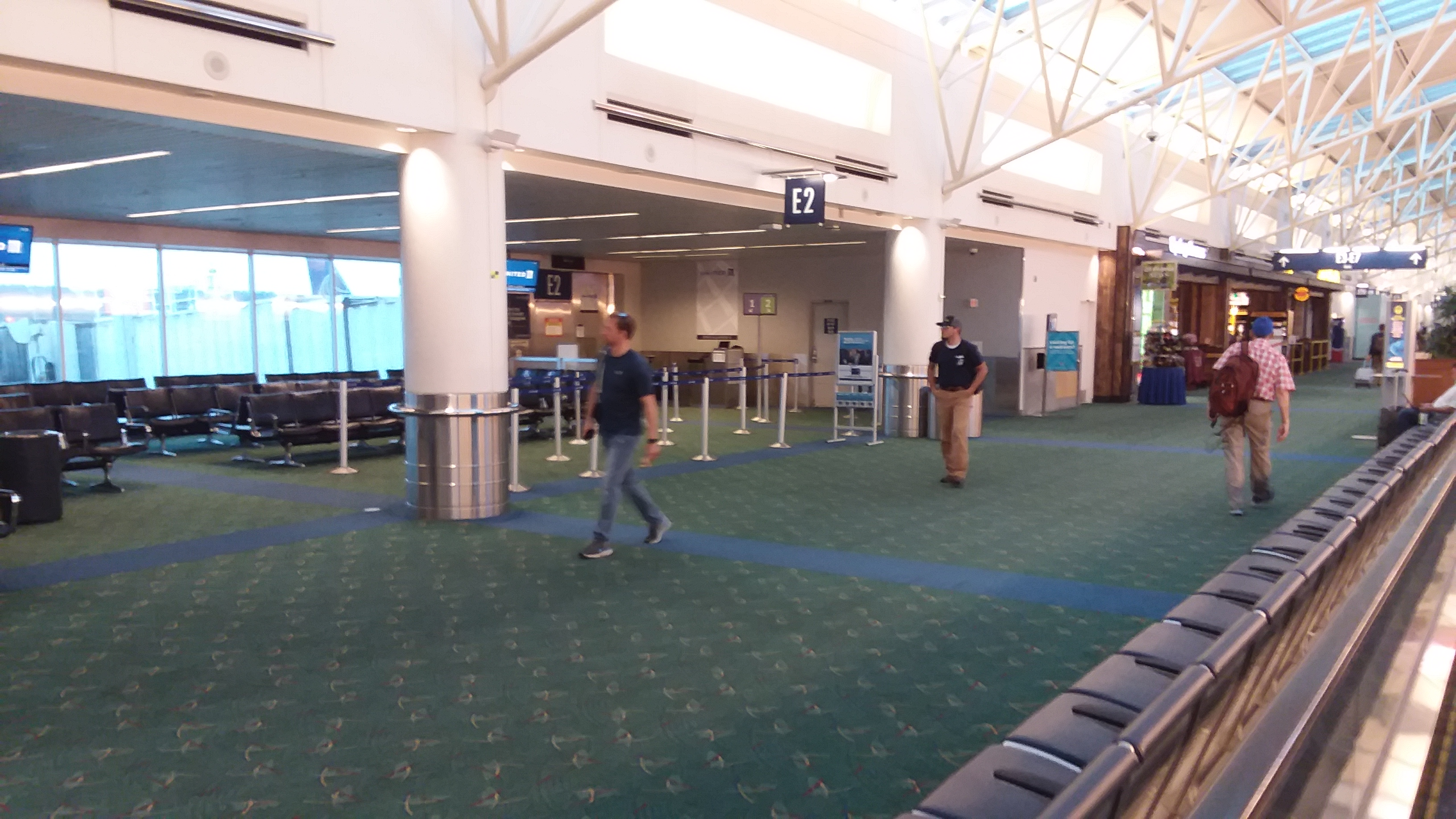 Gate E2 at PDX